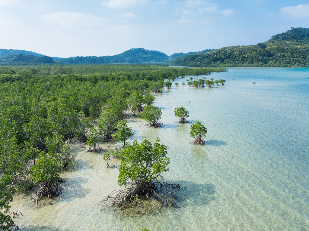 Large mangrove forest along Urauchi River in Iriomote Island of the Yaeyama Islands, Okinawa, Japan